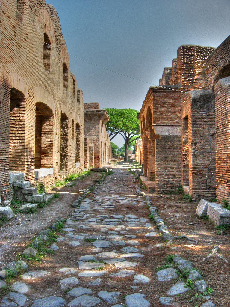 Ostia AnticaInto the roman world